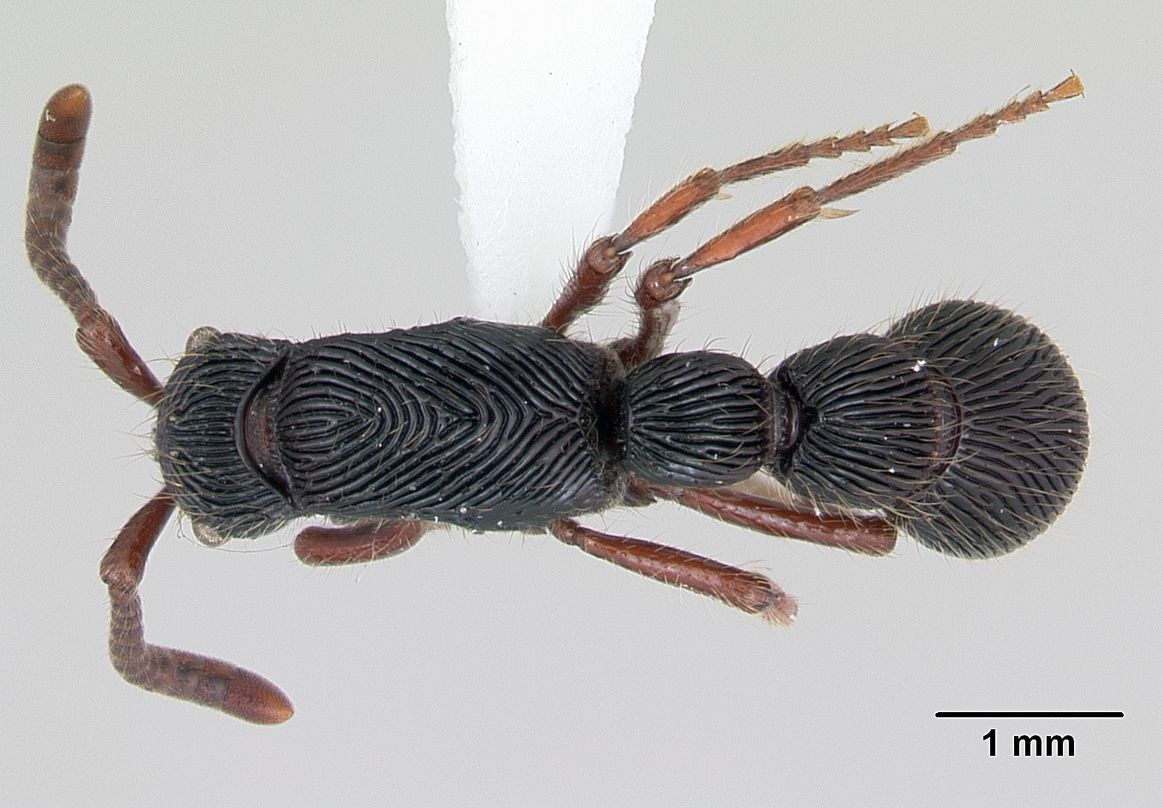 Dorsal view of ant Cerapachys crawleyi specimen casent0173074.